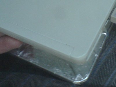 Laptop coaster as described here, Note that the laptop is lifted to show this object in between the lap and the laptop. Normally, because of its custom size, it is hardly visible.